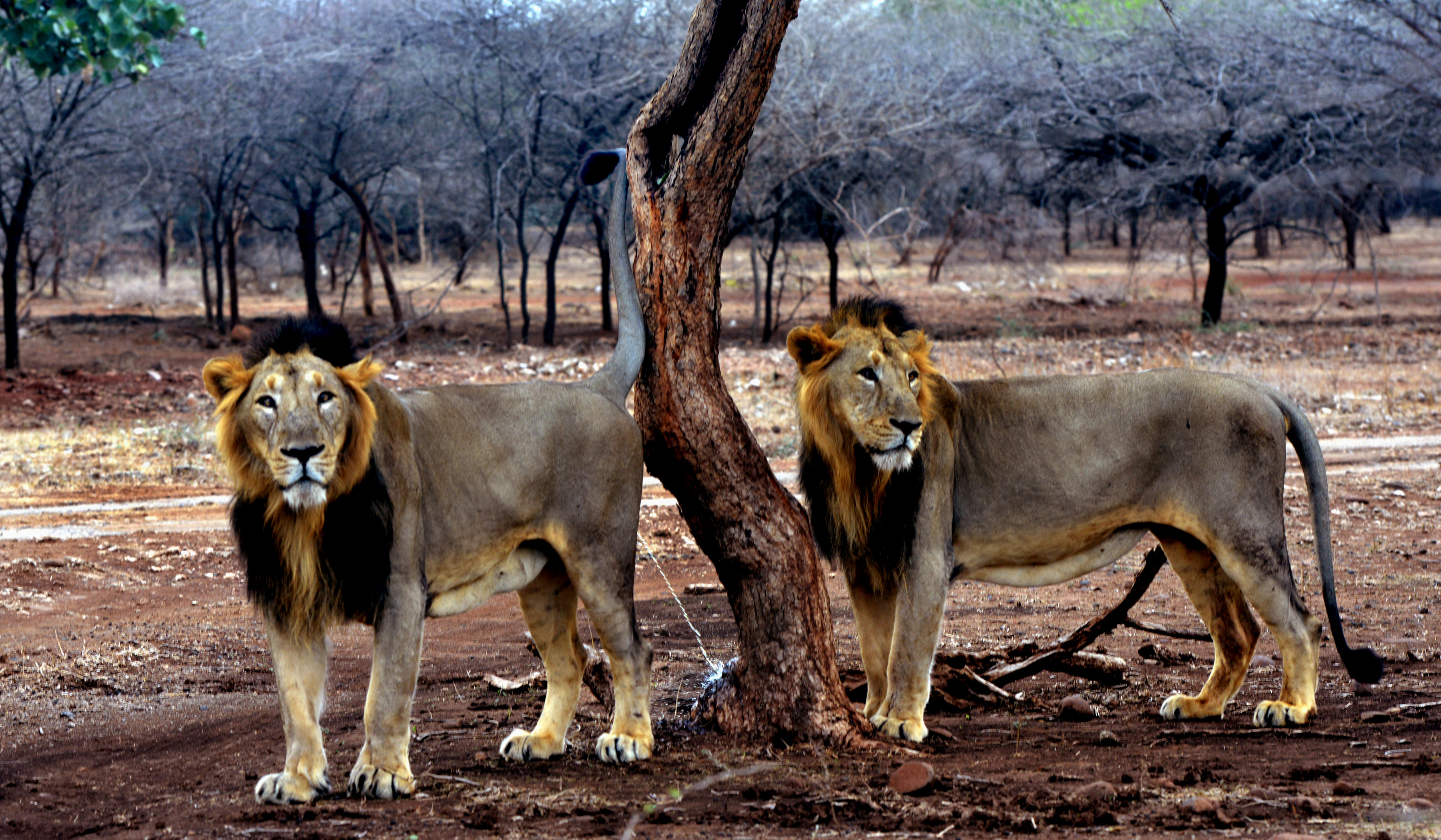 Gujarat lion in Gir forest lion marking the territory by urine